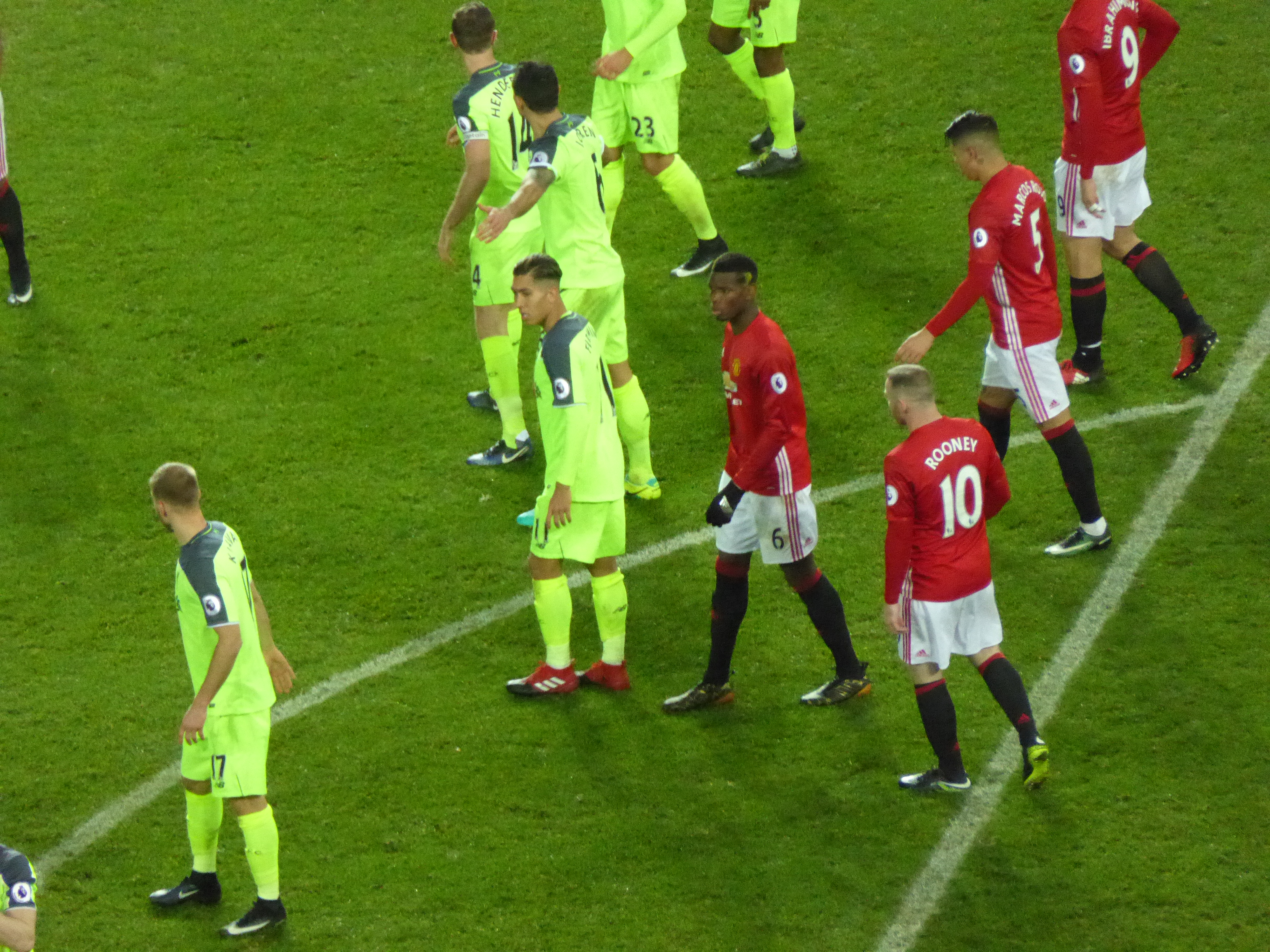 Manchester United v Liverpool (1-1), Premier League, Old Trafford, Manchester, Greater Manchester, England, January 2017